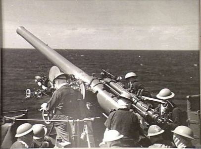 AWM caption : "ABOARD H.M.A.S. "SYDNEY" IN AUSTRALIAN WATERS - 4" HIGH ANGLE GUN AND THE GUN CREW."